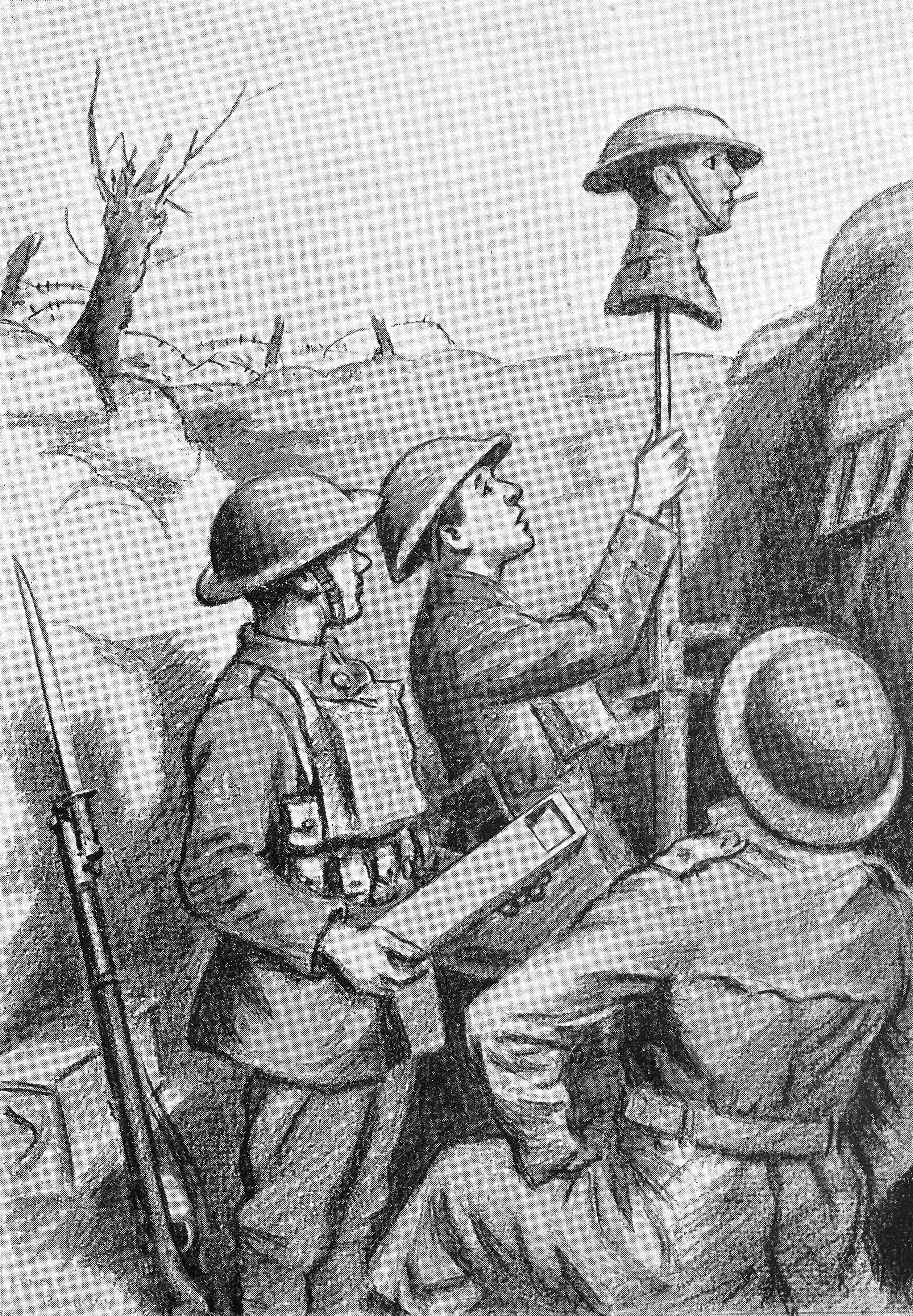 "Spotting the Enemy Sniper" Soldiers raise a dummy head on a stick, to allow it to be shot and reveal the position of an enemy sniper.